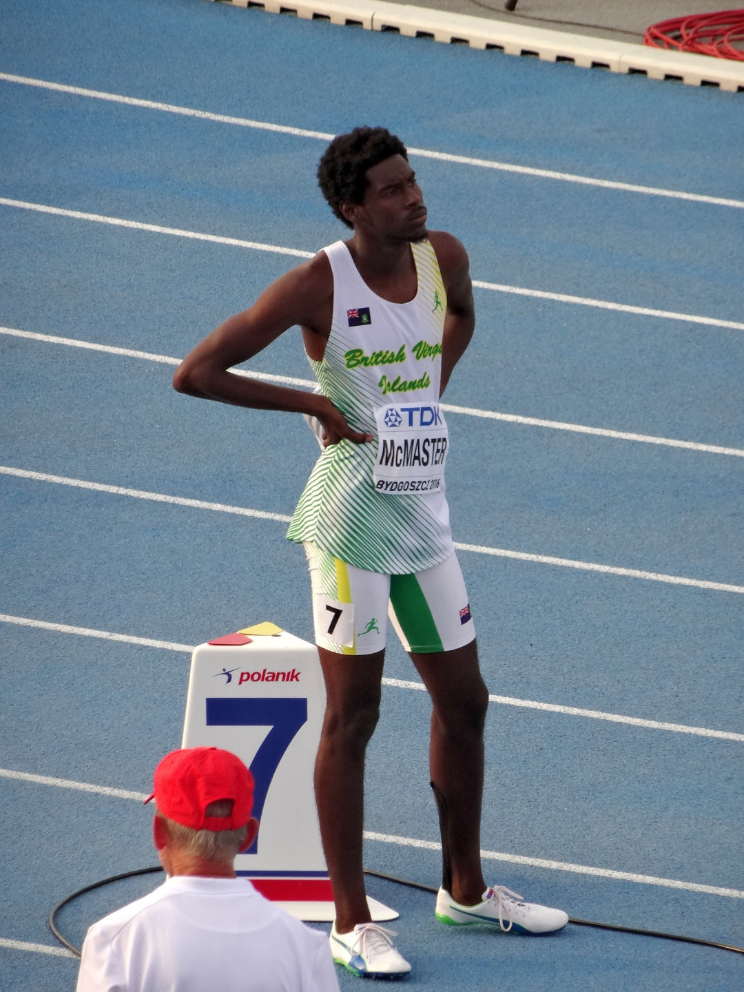 2016 IAAF World U20 Championships in Bydgoszcz, 400m hurdles men final